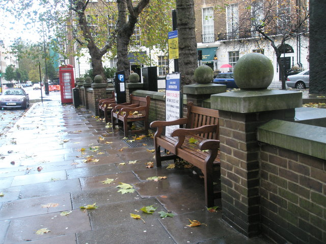 Uninviting looking seats in Great Cumberland Place